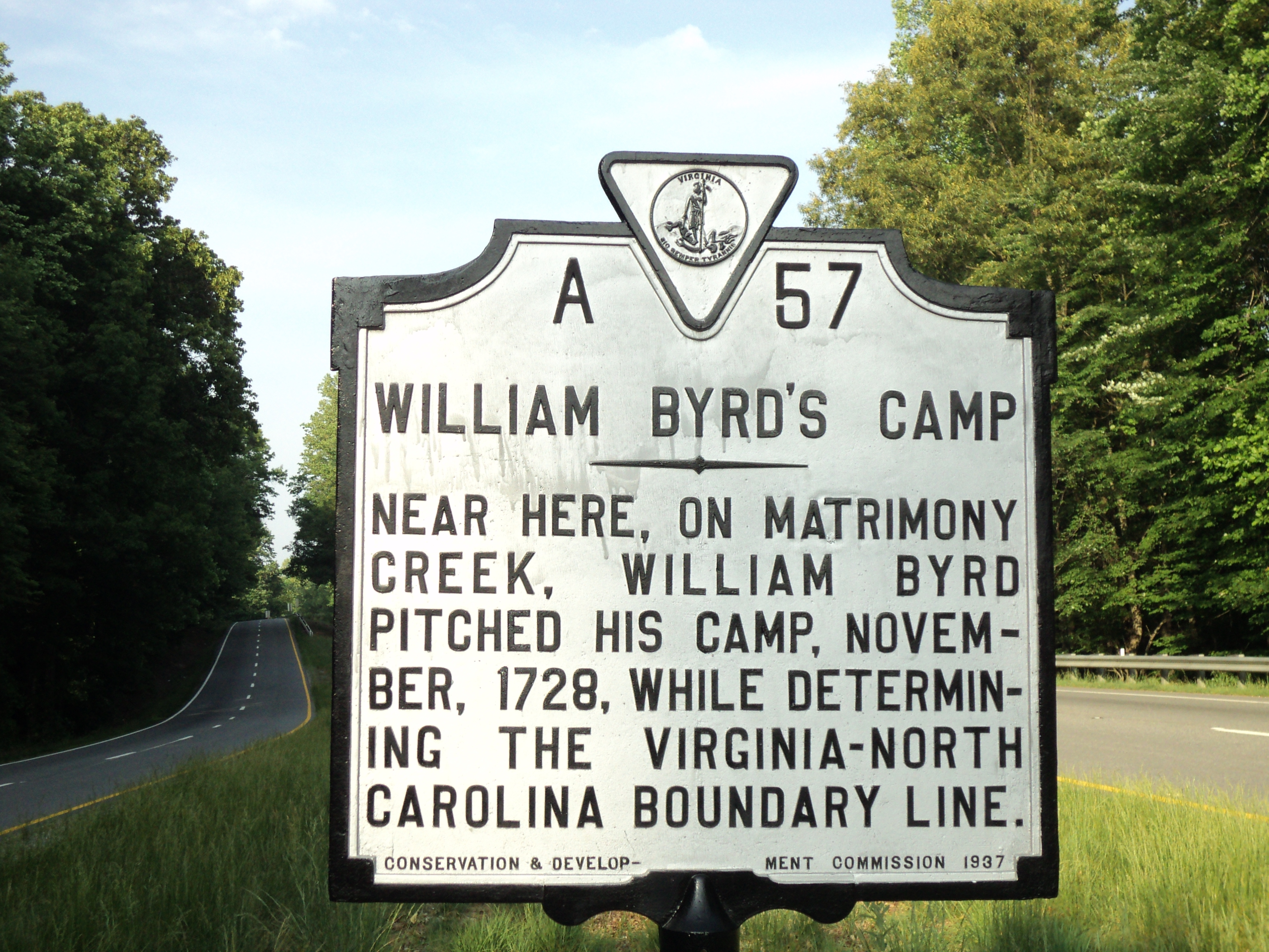 Virginia historic marker for the camp of William Byrd II, who surveyed the dividing line between North Carolina and Virginia, and who passed through Henry County, Virginia, in November 1728. Byrd passed by Matrimony Creek, which was given its name by one of the members of Byrd's surveying party for its turbulent, 'brawling' waters, reminding the man of the state of matrimony.